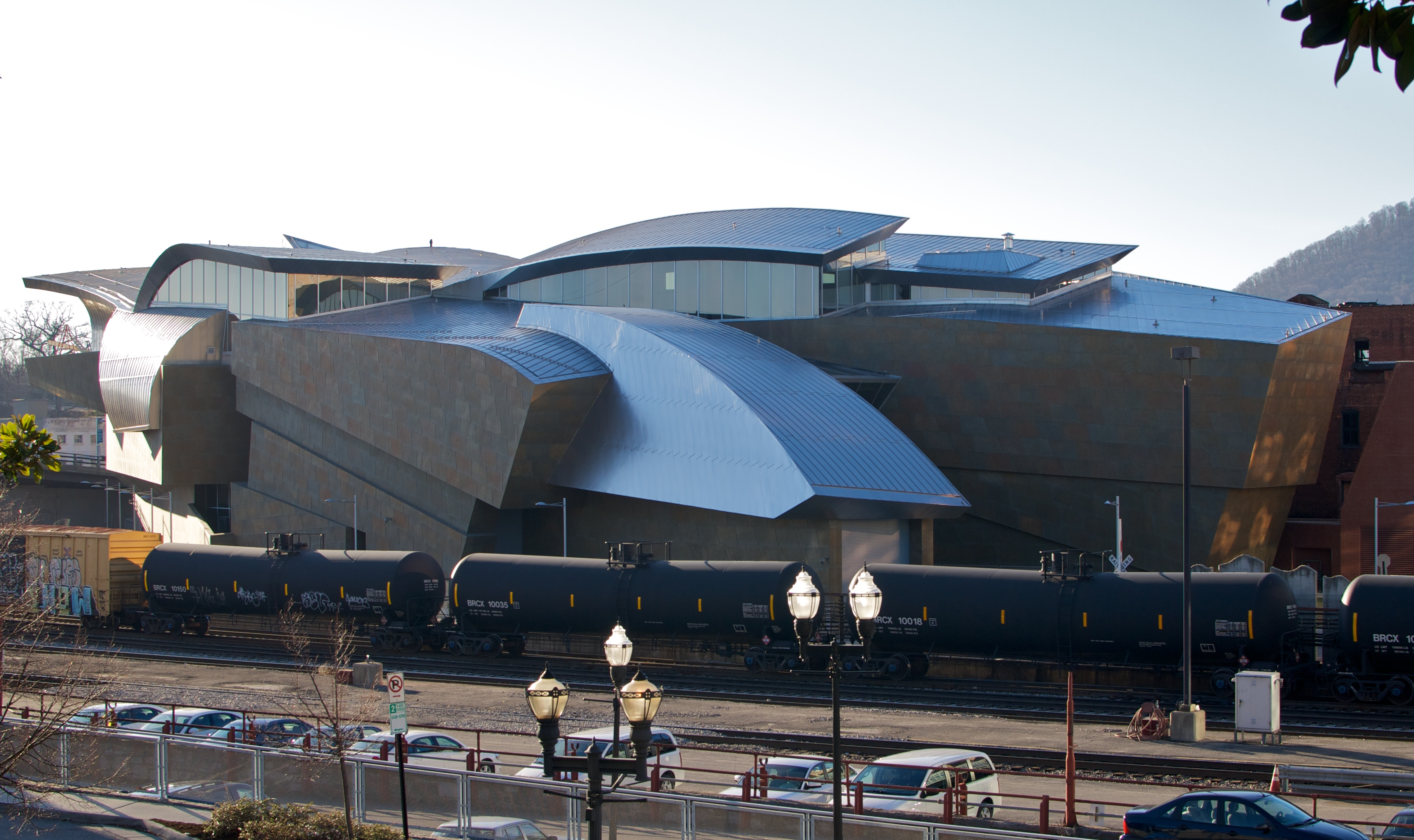 View of the Taubman Museum of Art from the vantage point of the Hotel Roanoke